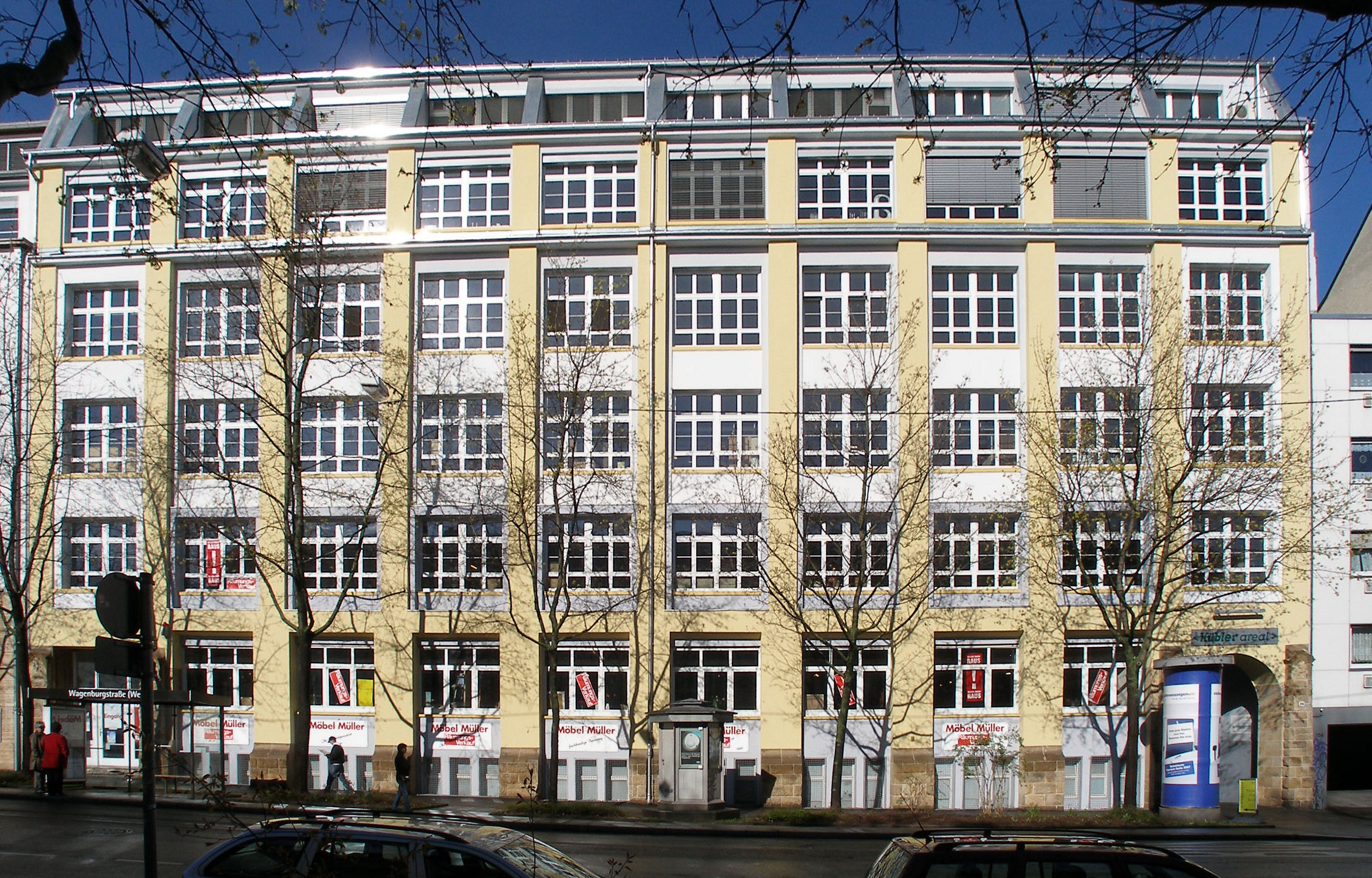 Building from 1910